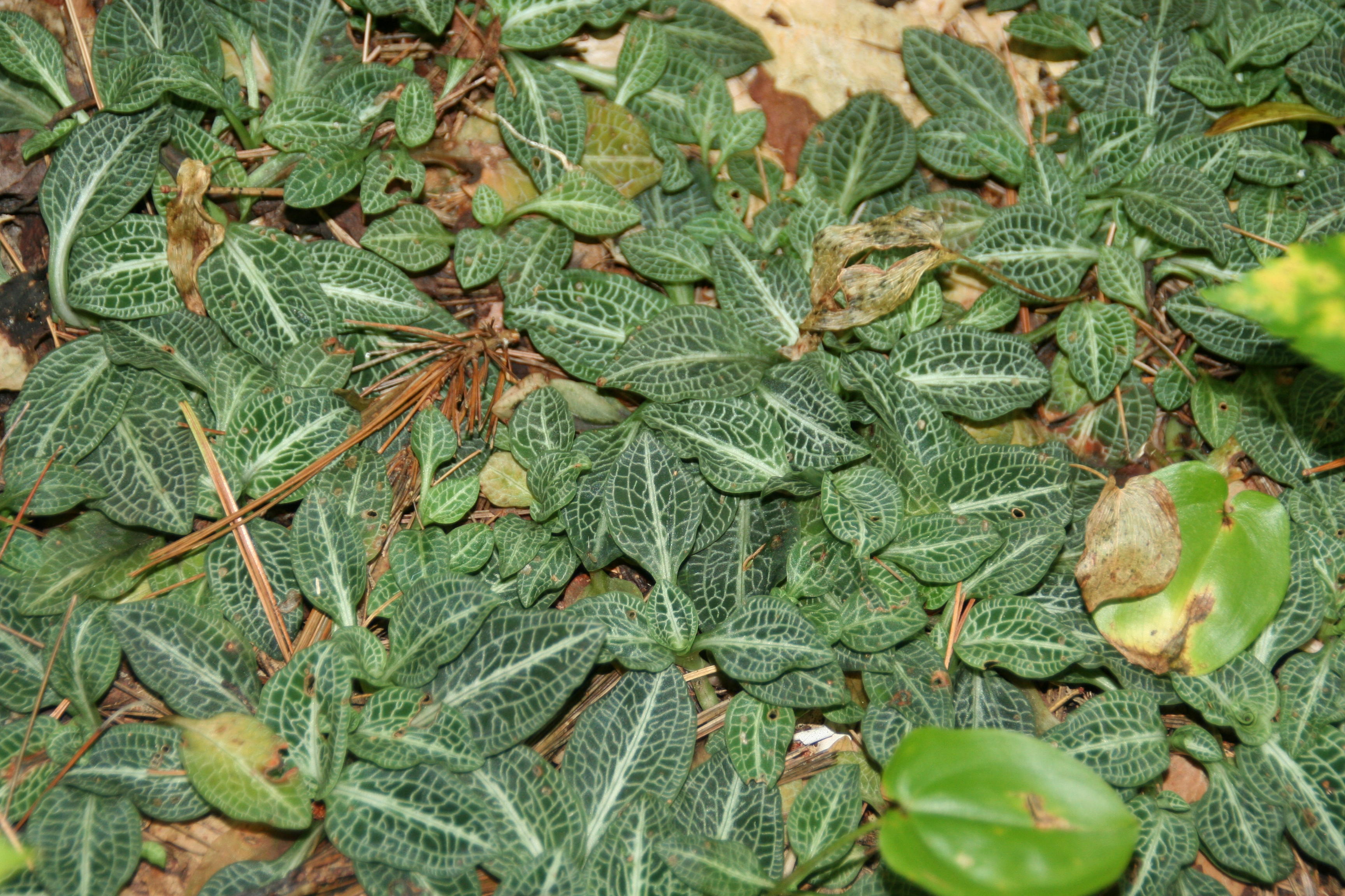 Goodyera pubescens, and a few leaves of Maianthemum canadense, found growing along a mountain trail in mixed forest in central New Hampshire, August 2011.